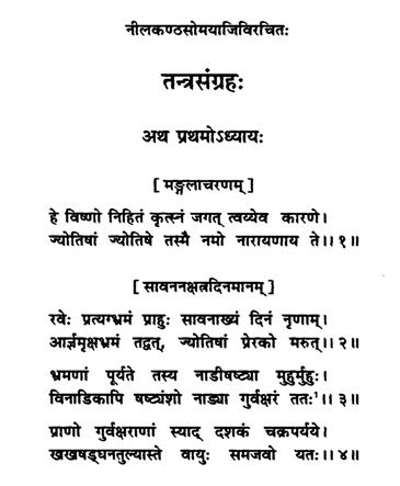 An image of the opening verses in the Tantrasamgraha by Nilakantha Somayaji, an astronomer/mathematician of the Kerala School of astronomy and mathematics.